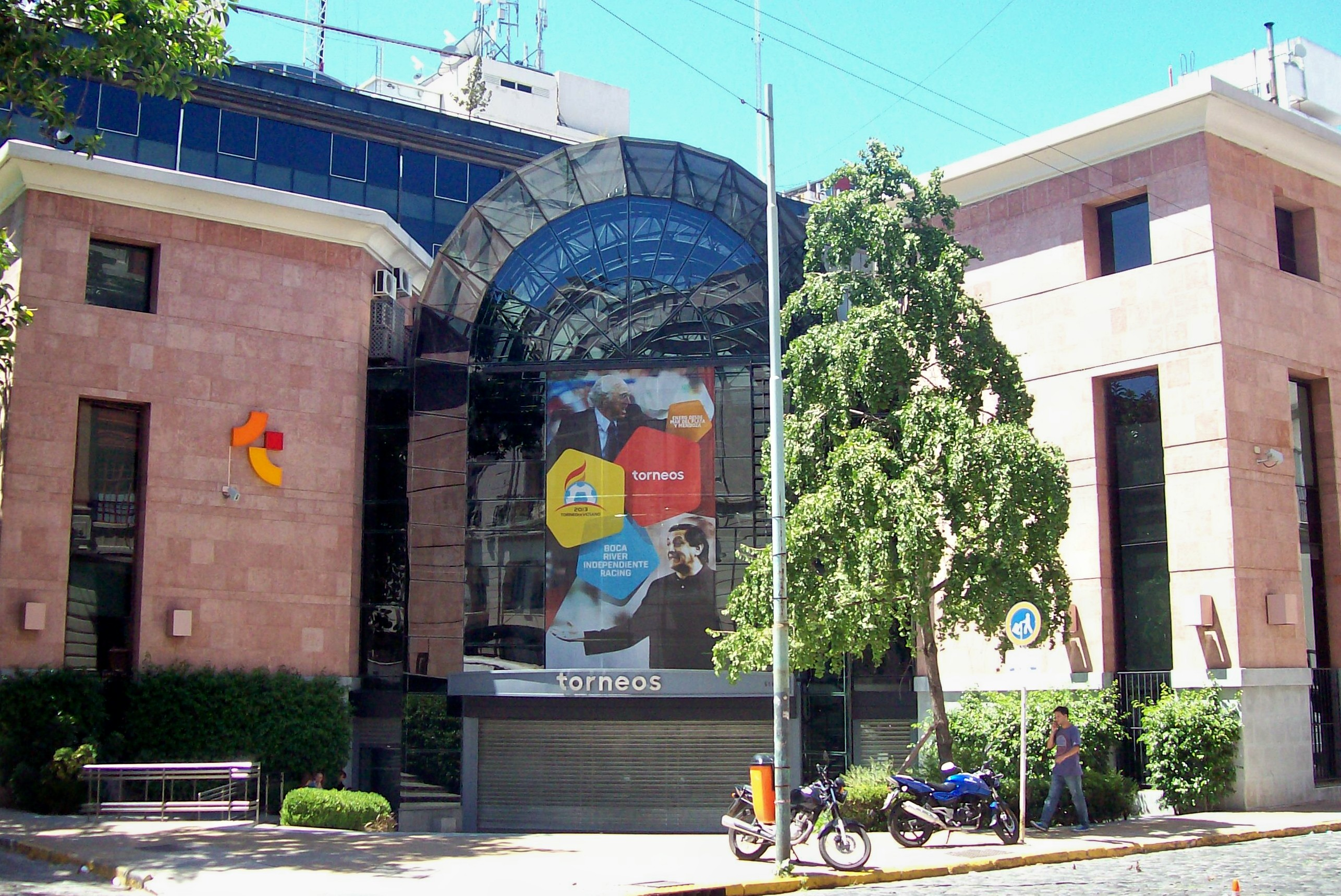 Head office of TyC (Torneos y Competencias) in Monserrat, Buenos Aires, Argentina.